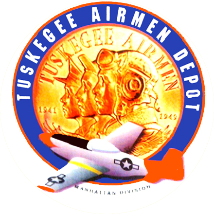 Airmen Tuskegee logo. I made a slight edit for clarity